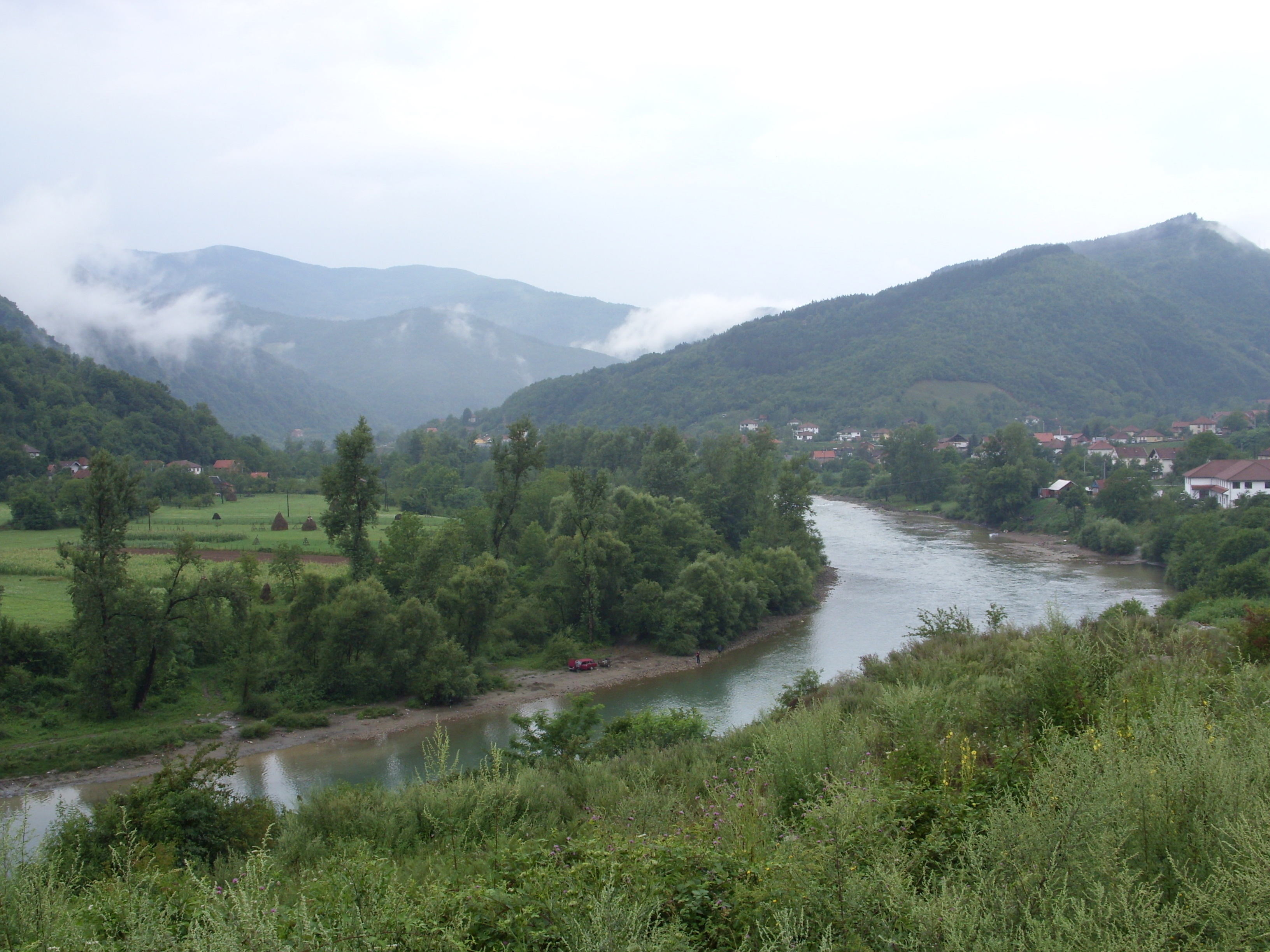 Drina River in Foča-Ustikolina municipality, East Bosnia. Hornjoserbsce: Rěka Drina w gmejnje Foča-Ustikolina, wuchodna Bosniska.